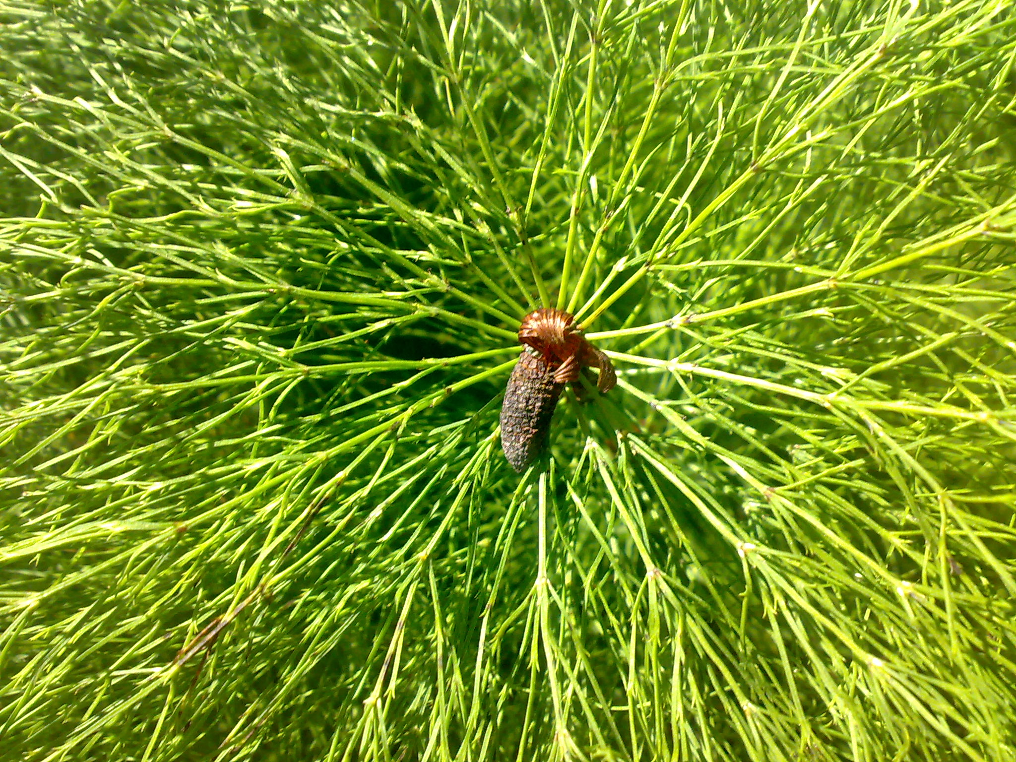 Equisetum sylvaticum detail. Picture from Hurum, Norway.